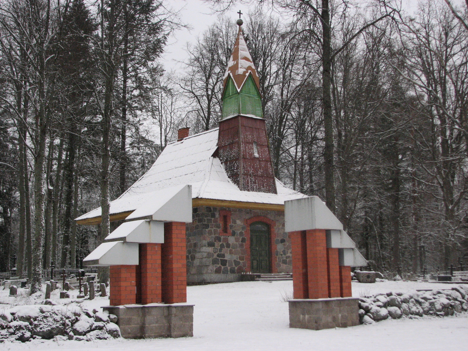 Charnel house of Helme cementery in near of the Tõrva, Estonia